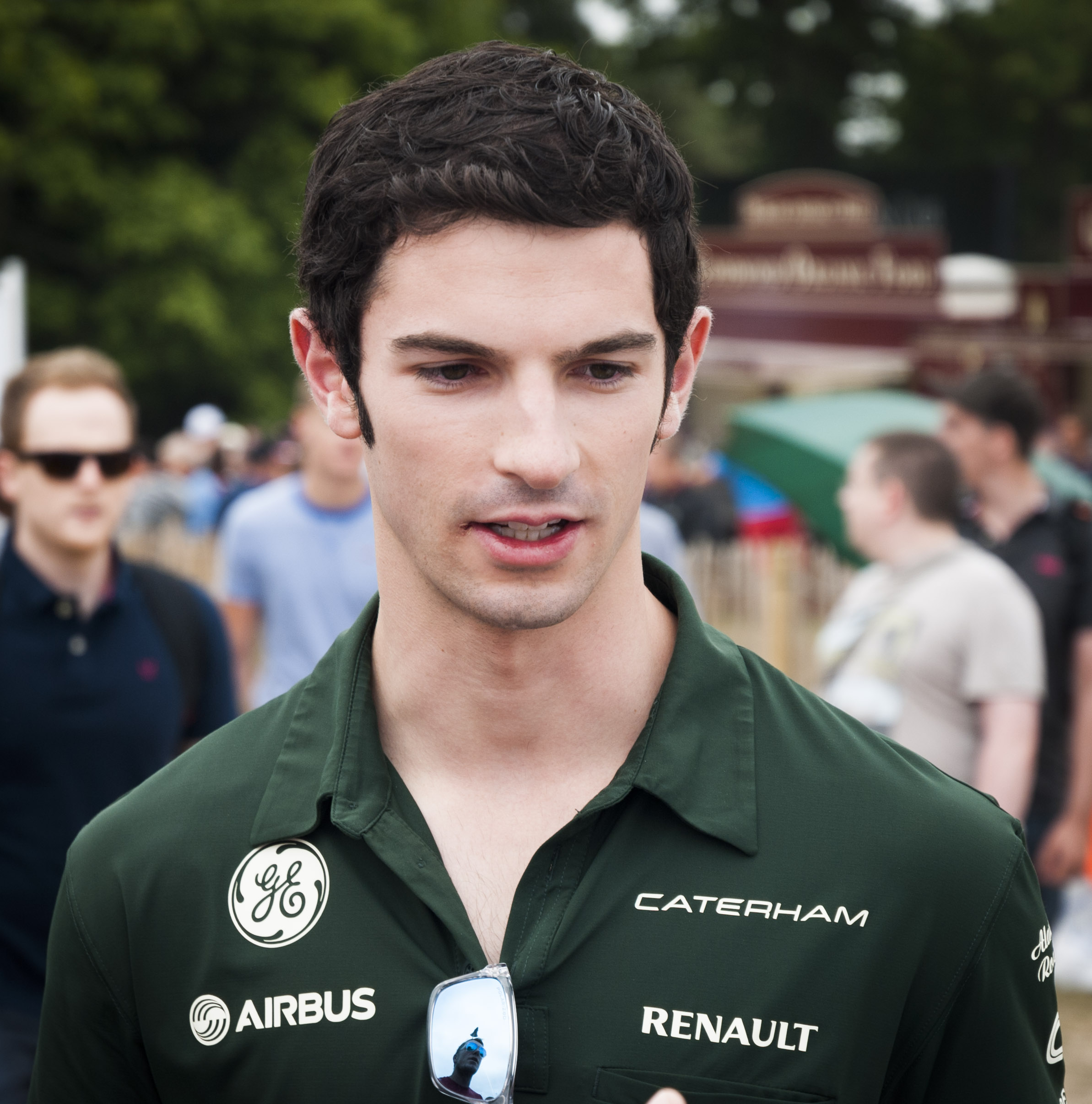 Alexander Rossi at the 2013 Goodwood Festival of Speed